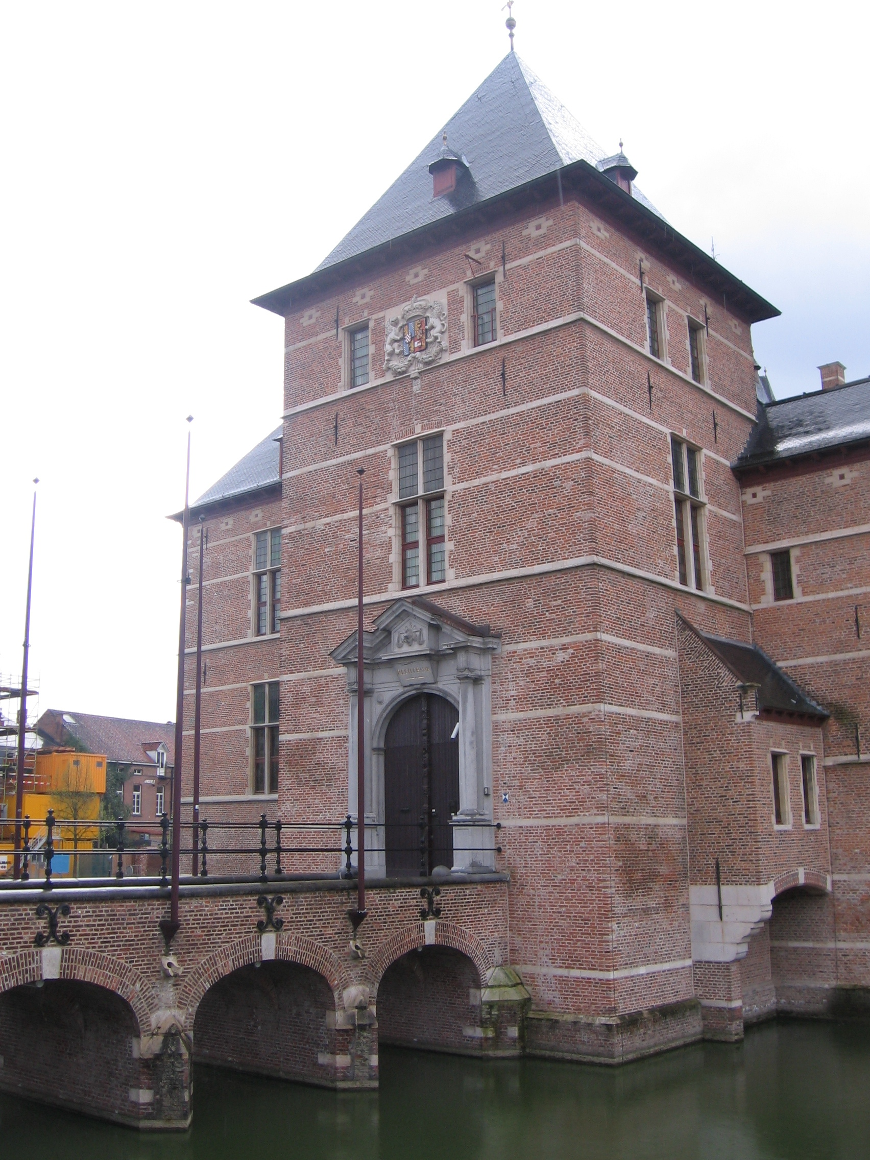 Turnhout, 29 april 2006